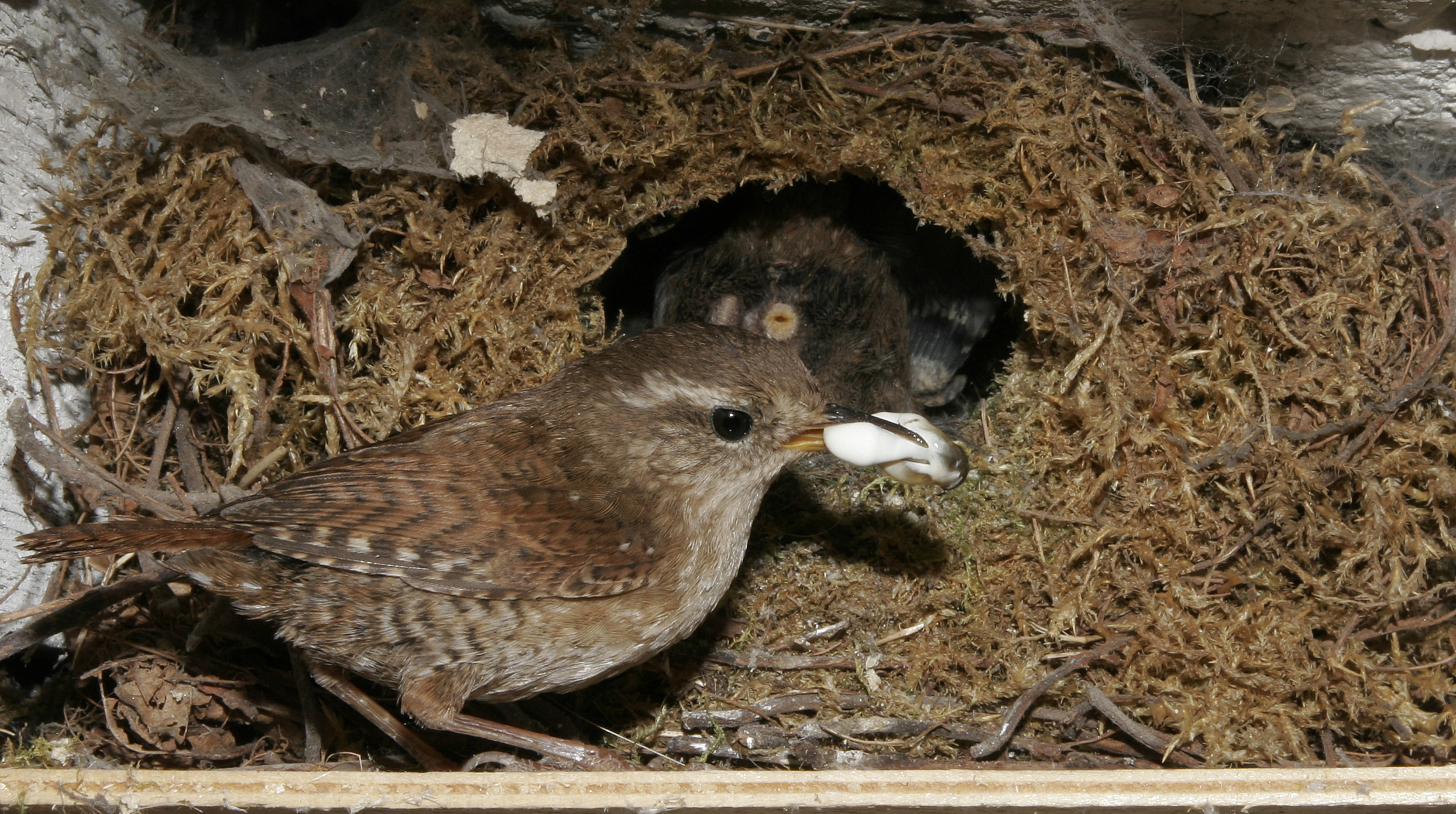 Winter Wren (Troglodytes troglodytes), adult with hatchlings, picture taken on May 5th, 2007 in Bensheim (Germany). The adult removes the feces of one hatchling. Sequence of 6 pictures